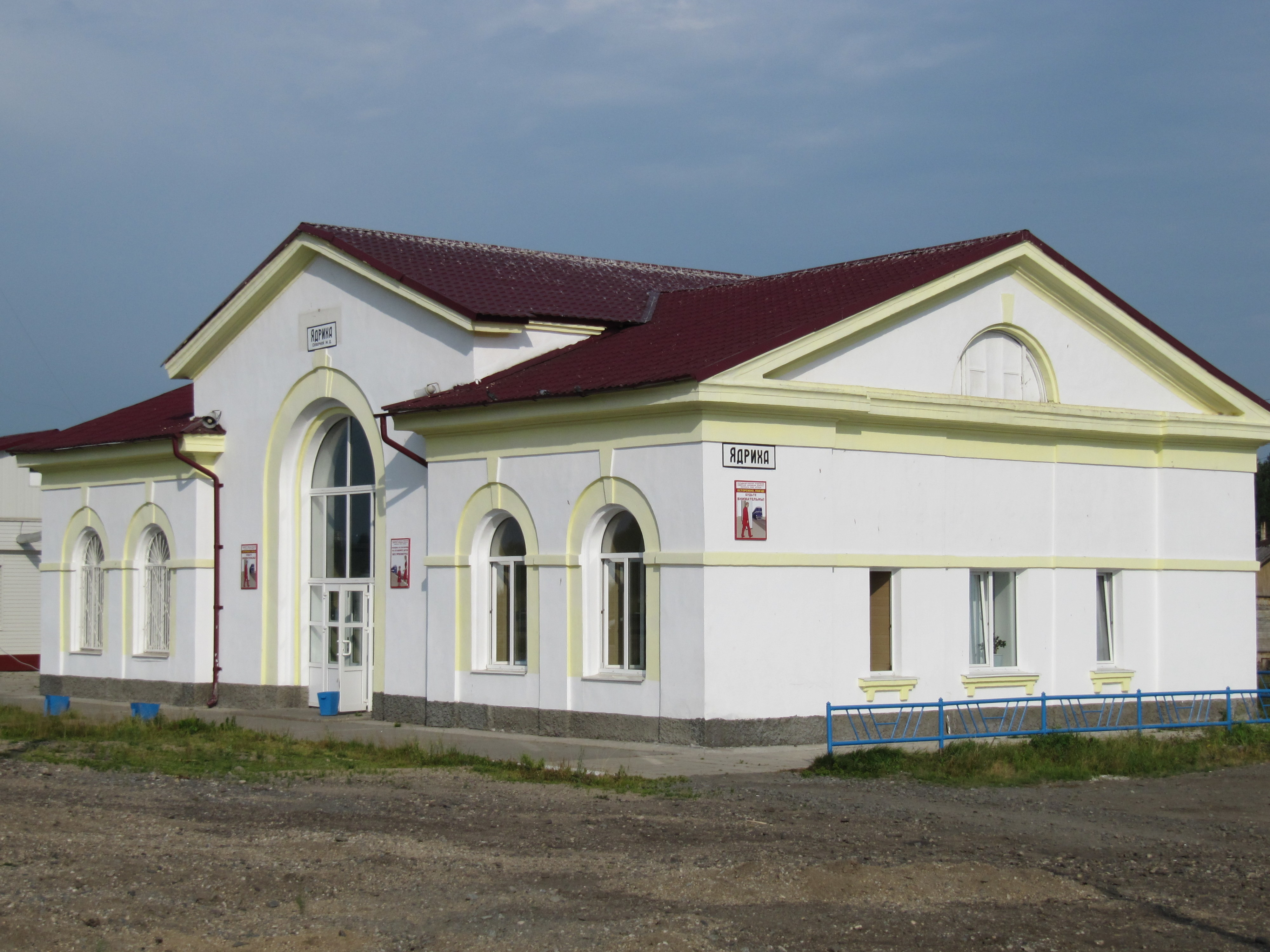 Railway station in Yadrikha